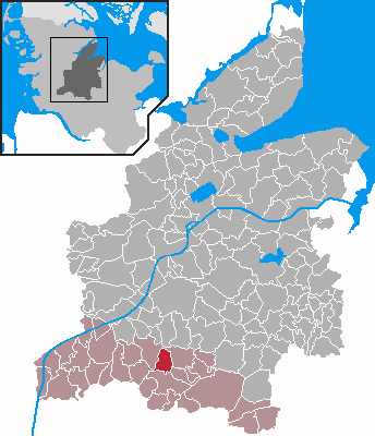 Locator maps of municipalities in Schleswig-Holstein - District Rendsburg-Eckernförde